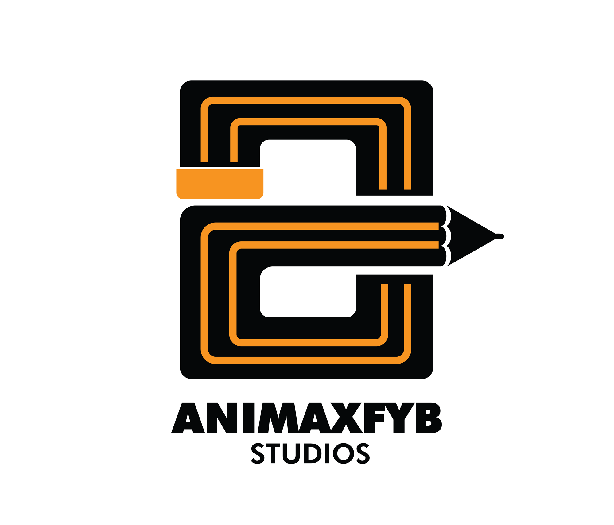 AnimaxFYB Studios penciled Logo